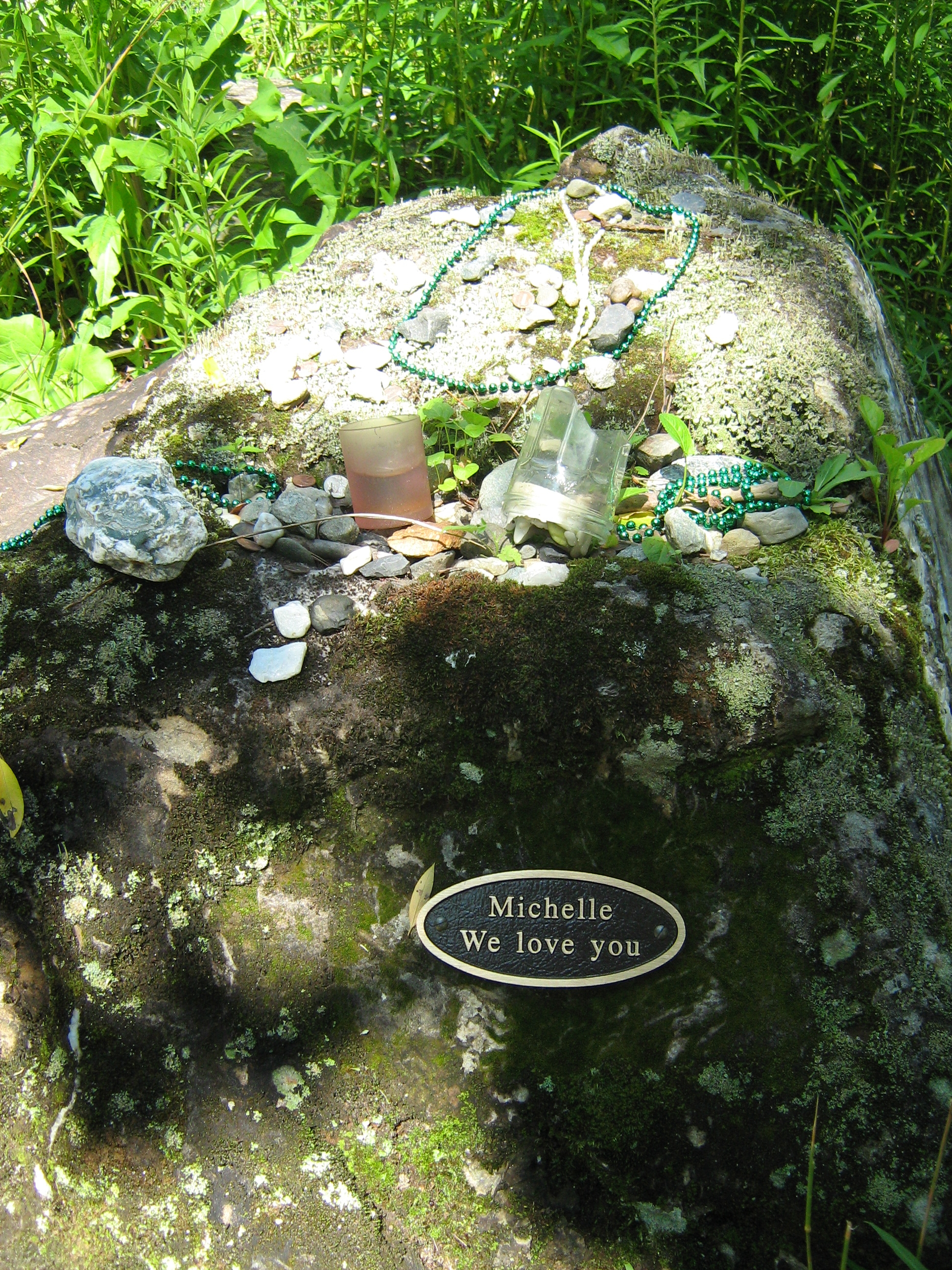 Memorial plaque on a roadside boulder near where Michelle Gardner-Quinn's body was found in Richmond, Vermont.